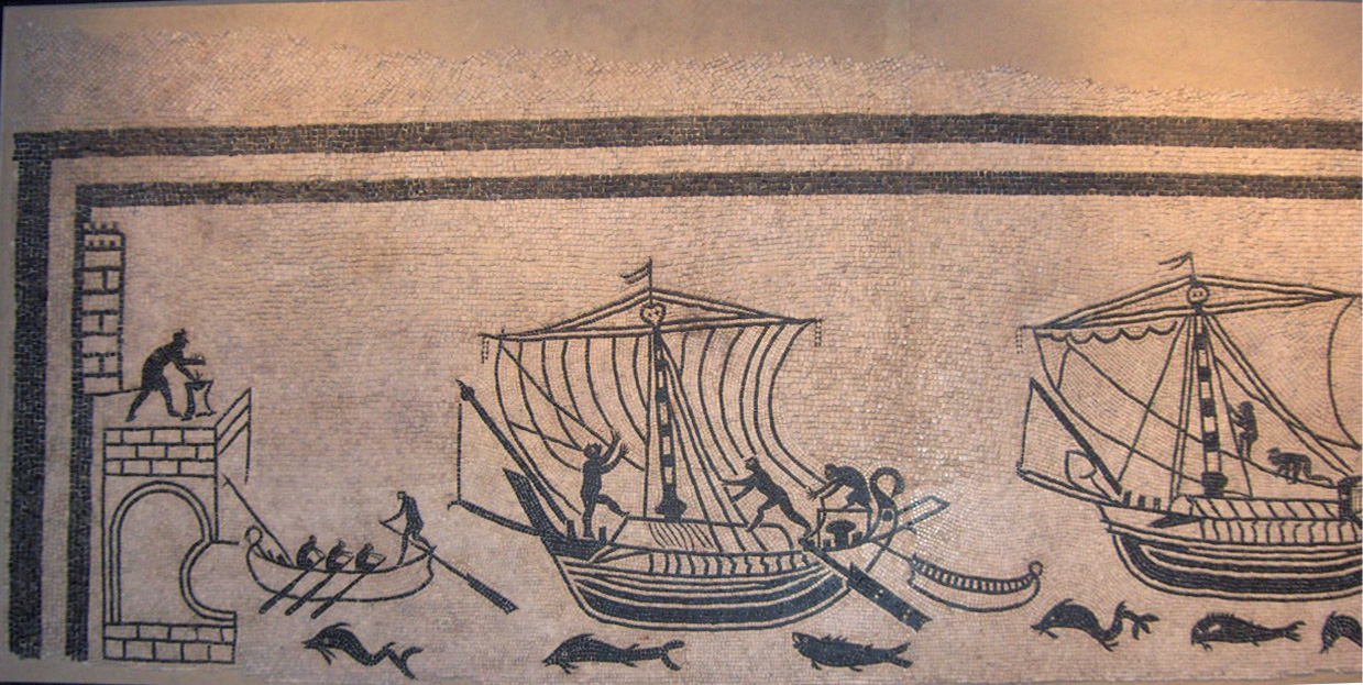 "Mosaic of the boats" from a Roman house in Rimini during the Roman Empire. On display at the Museo della città di Rimini.